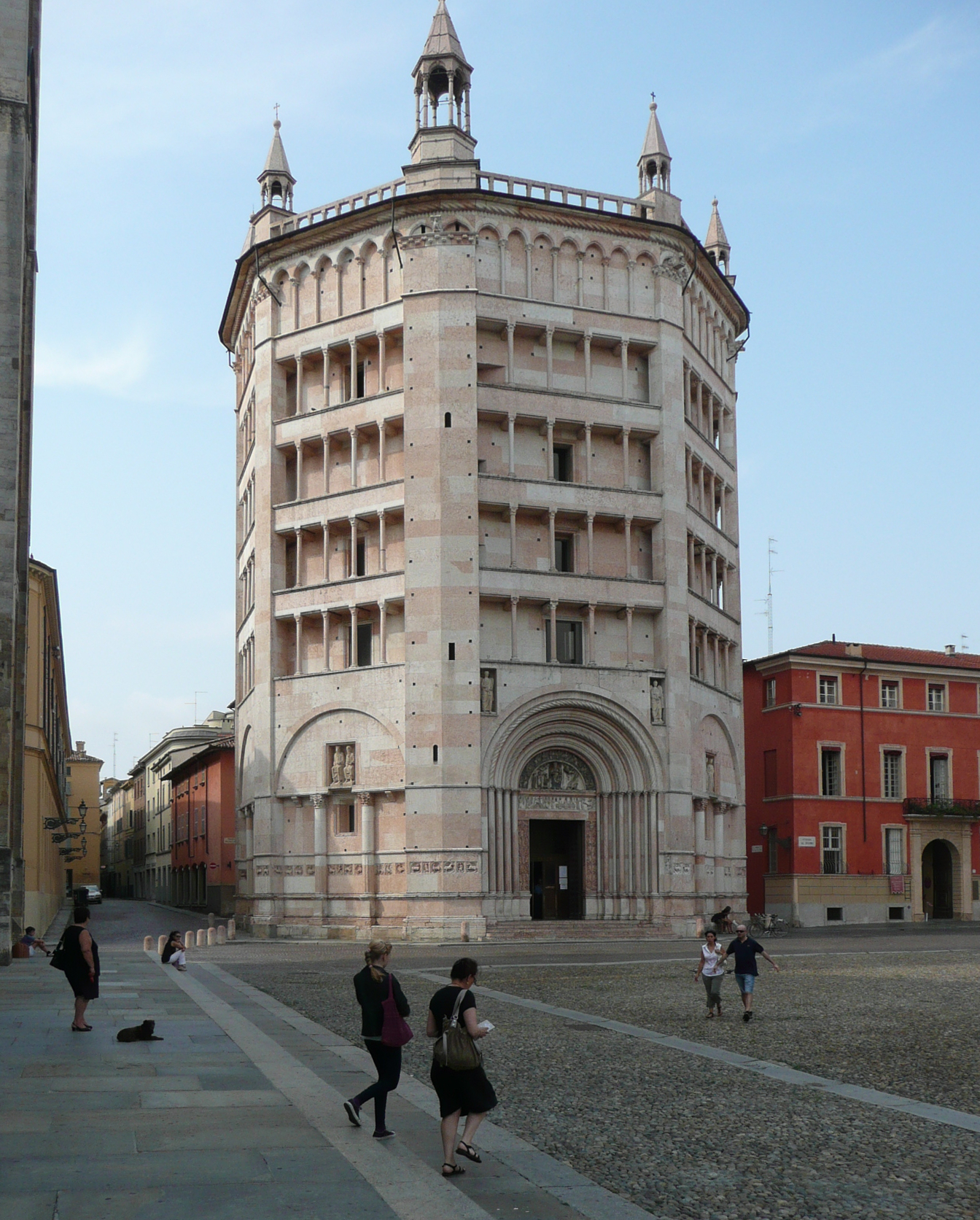 Baptistery of Parma by Benedetto Antelami